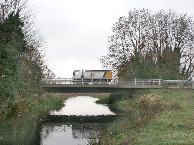 Road Bridge over the River Bain, Coningsby. View looking south west.